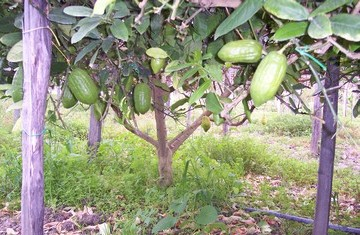 The Citron Trees in Calabria supported with sticks